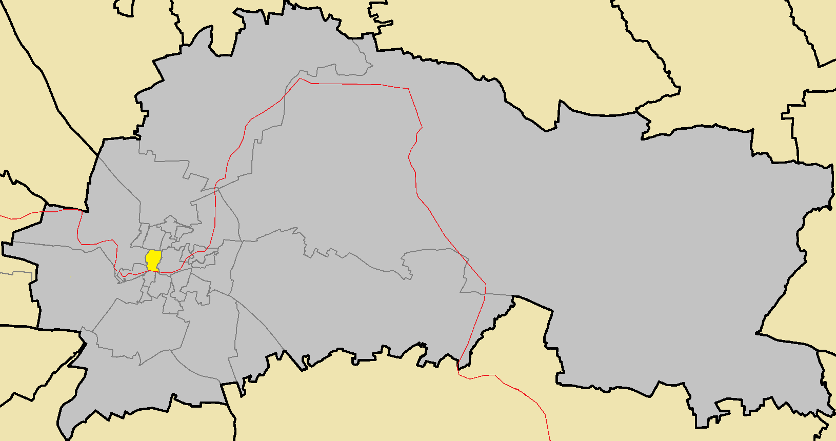 Iplik Bazar–Korkut Effendi in Nicosia Municipality (de jure).